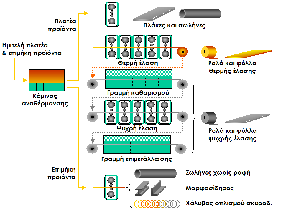 Steel products diagramm